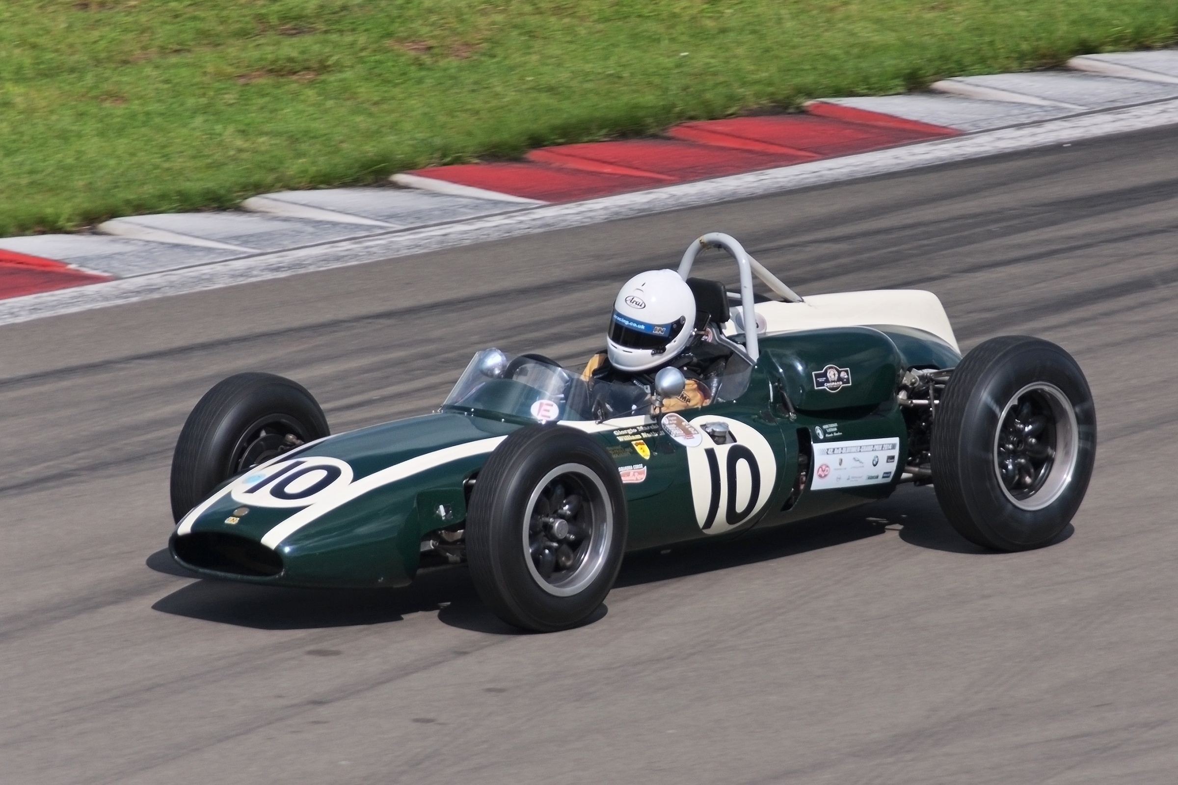 Cooper T53